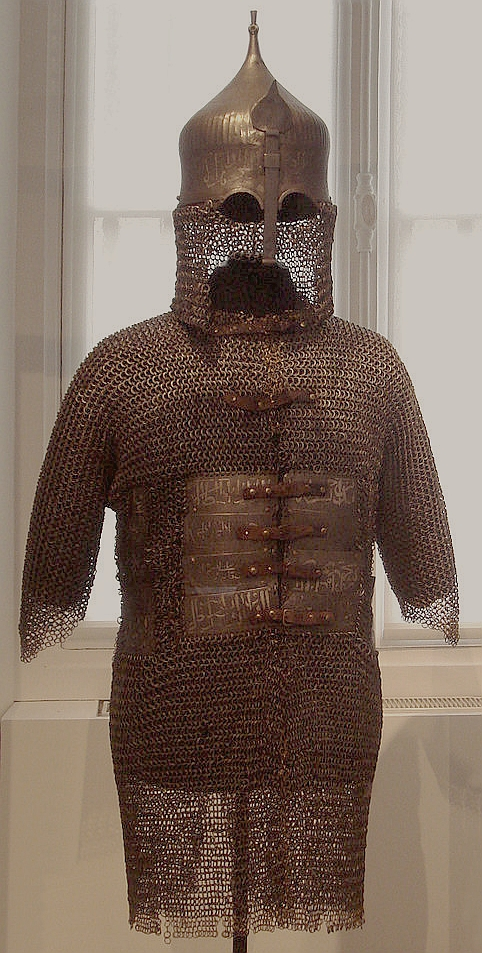 Armour of the Ottoman Empire, chainmail shirt with armor plates, (zirah baktar or zirh gomlek) and helmet (migfer) of the turban type, 1480-1500, Musee de l'Armee, Paris France, cropped and edited from the original image.